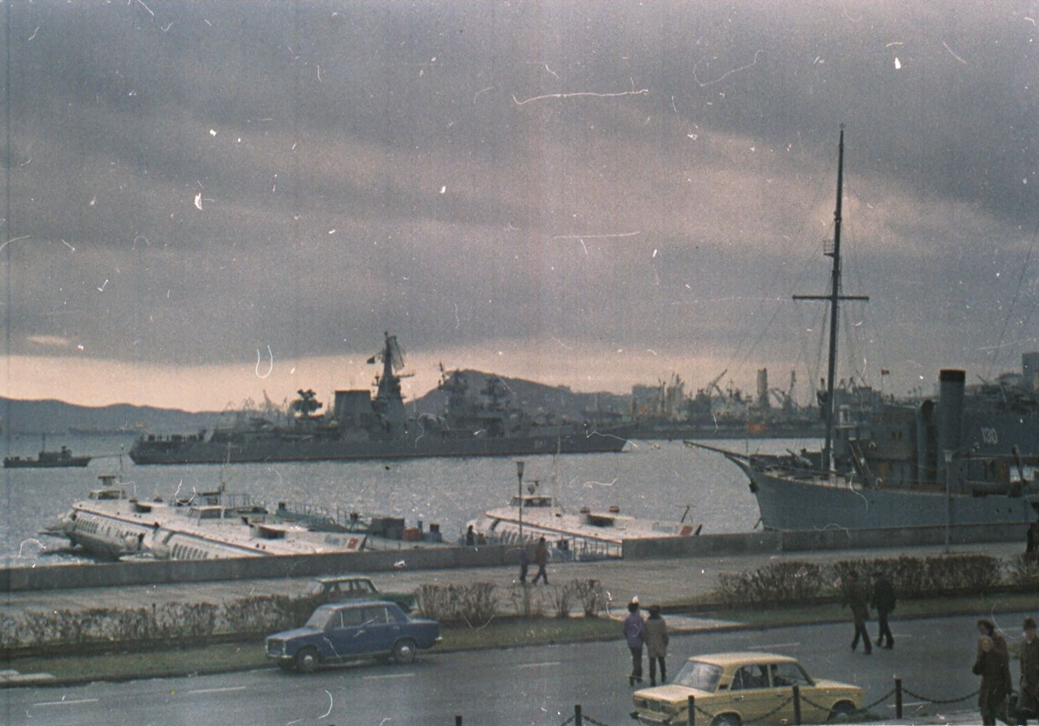 Port of Vladivostok